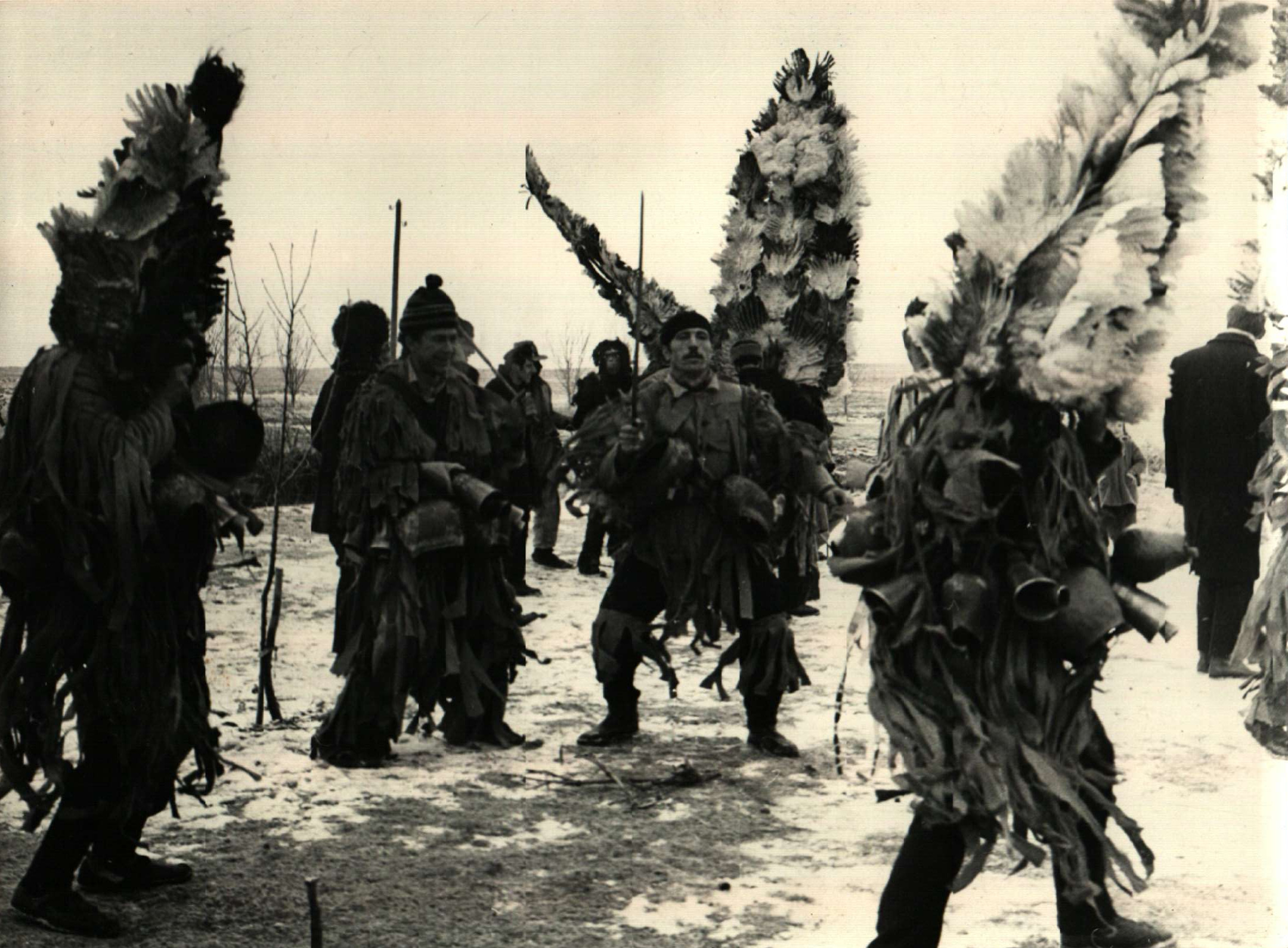 Kukeri from Bulgaria